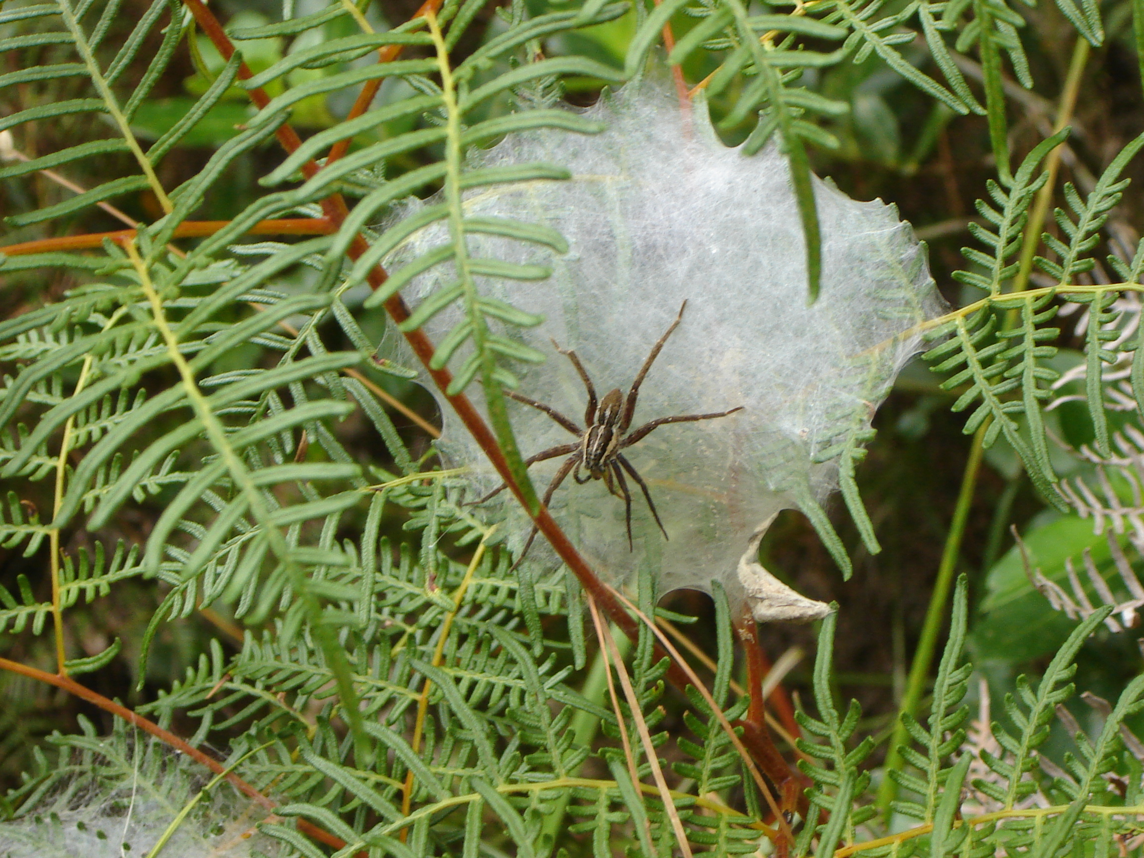 Nursery web spider, Dolomedes minor, sitting on top of its nest made in a fern (Pteridium esculentum).